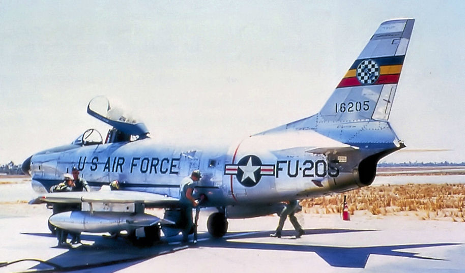 514th Fighter-Interceptor Squadron - North American F-86D-35-NA Sabre - 51-6205